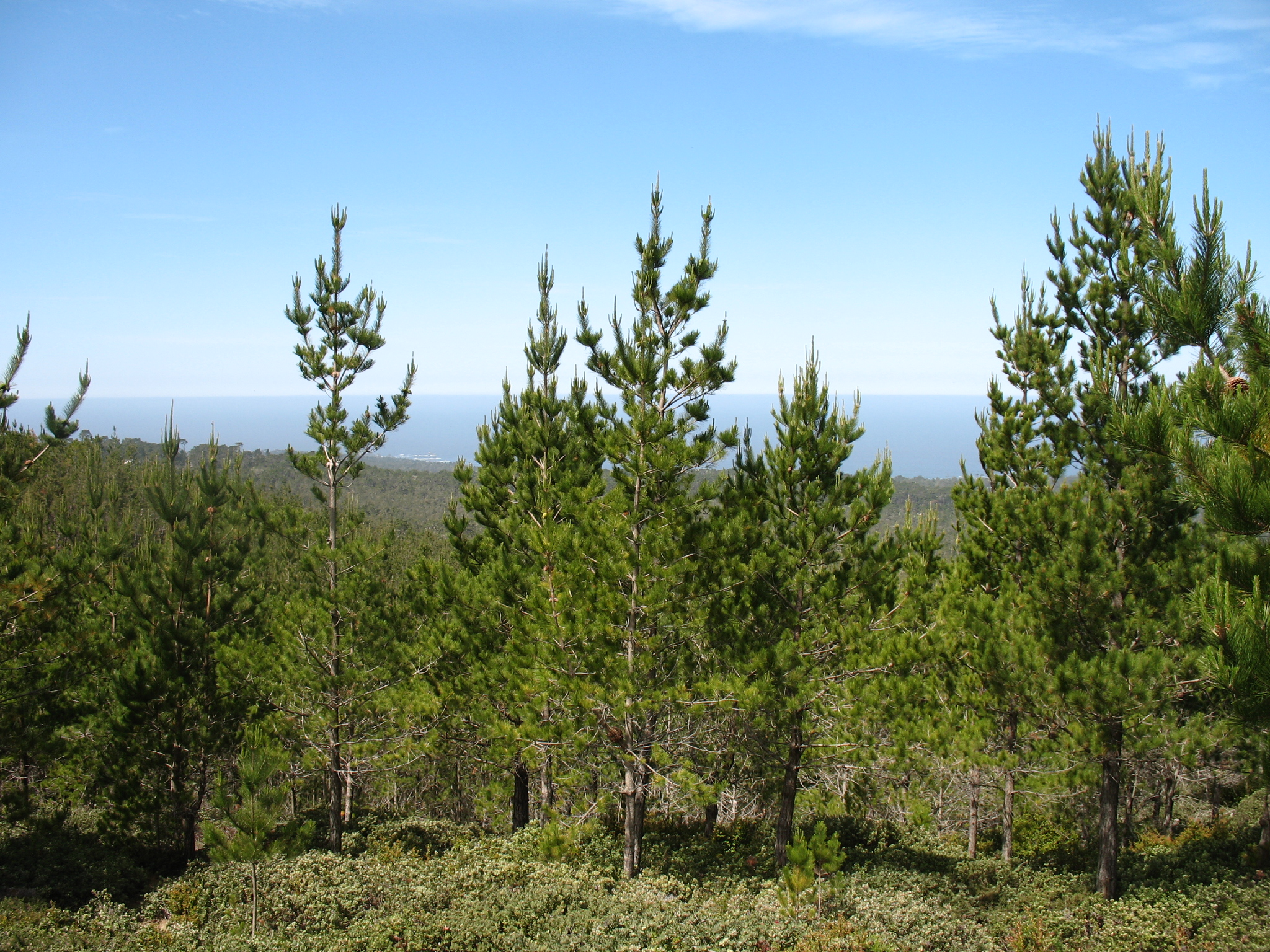 Pinus radiata, Huckleberry Hill, Monterey, California.